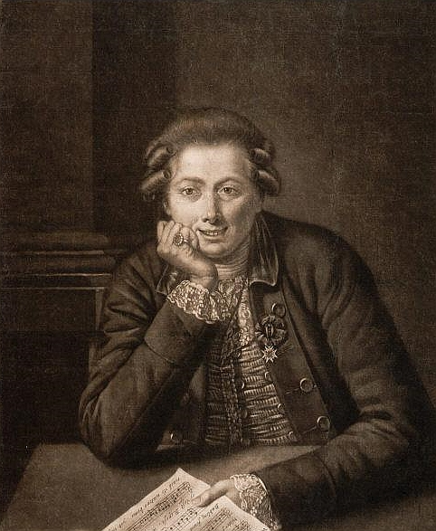 Italian opera singer and composer Giusto Fernando Tenducci (ca. 1736-1790). Mezzotint. Originally titled: "Justus Ferdinand Tenducci, Count Palatine and Knight of the Noble and Ancient Order of St. John".